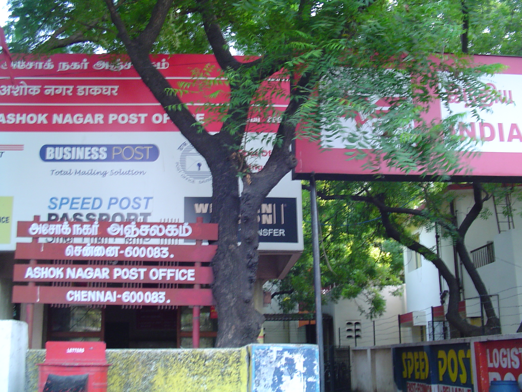 Post Office